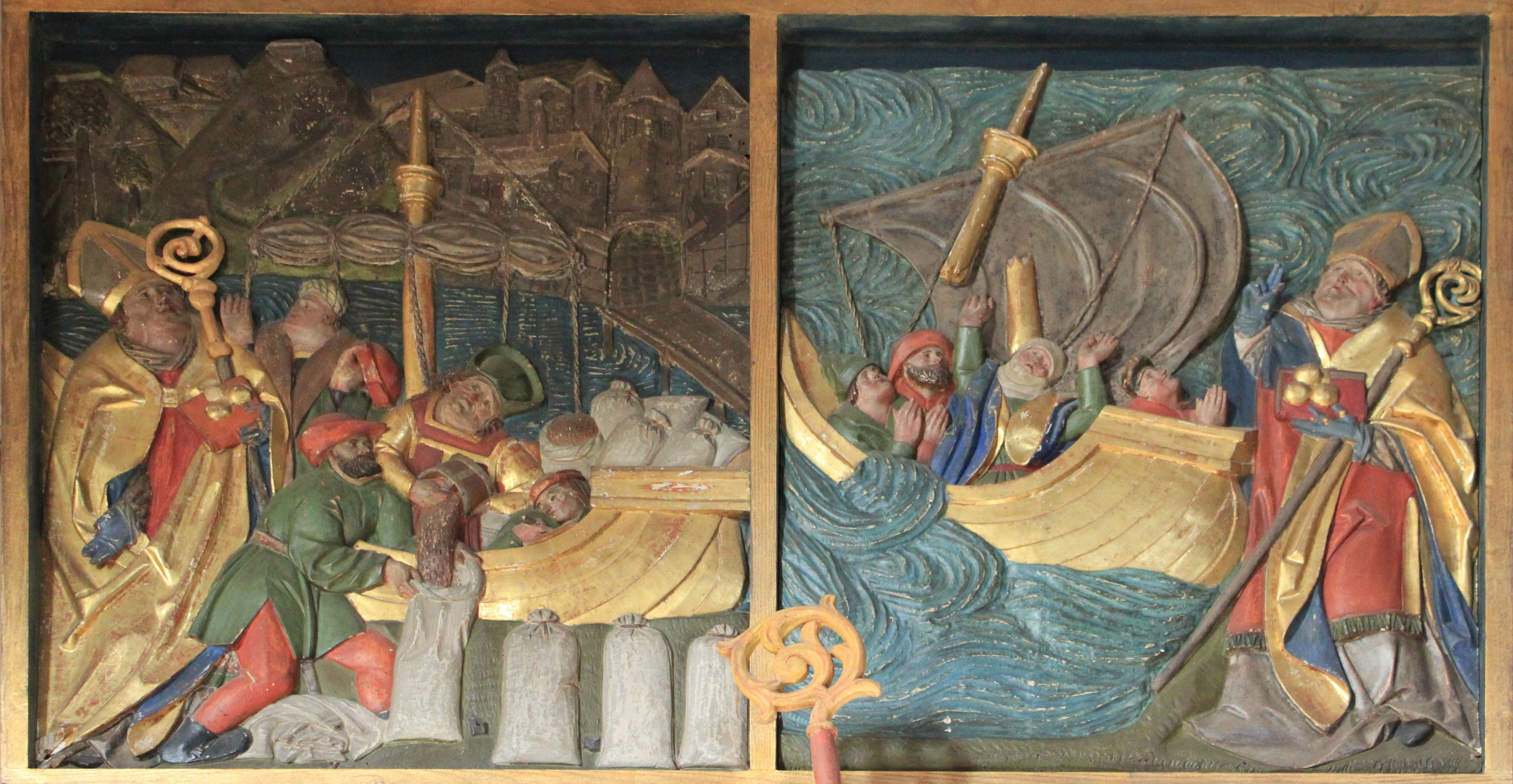 Saint-Niclaus-church in Liesing in the community Lesachtal - Relief with the legend of Saint Niclaus